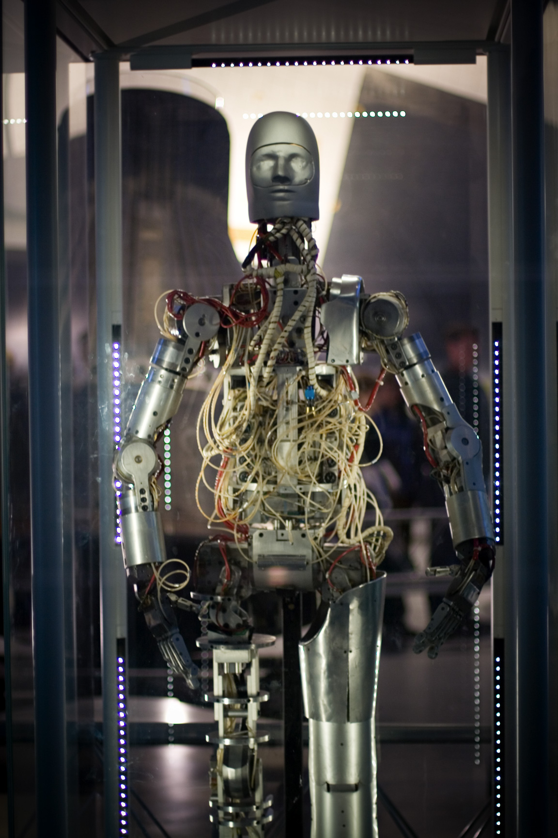 "This articulated dummy was built for NASA's Manned Spacecraft Center by the Illinois Institute of Technology to support the development of spacesuits. It used hydraulic and electrical actuators to replicate many of the joint motions of the human body, with realistic forces. Sensors placed throughout the dummy measured forces that a prototype suit might exert on a human being when wearing the suit in a space environment. That enabled suit designers to measure how much force a human would need to move an arm or leg, or turn his or her head, when wearing a suit in space. By using this dummy instead of a human being during the design and testing of a space suit, tests could proceed that might otherwise be painful, tedious, or even dangerous for a human being to participate in. Donated by Larry Graham to the Museum in 1986." -Smithsonian Image taken at the Steven F. Udvar-Hazy Center, Virginia, USA.